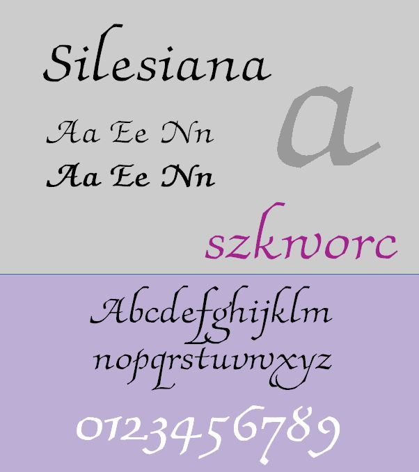 Example of Silesiana fonts